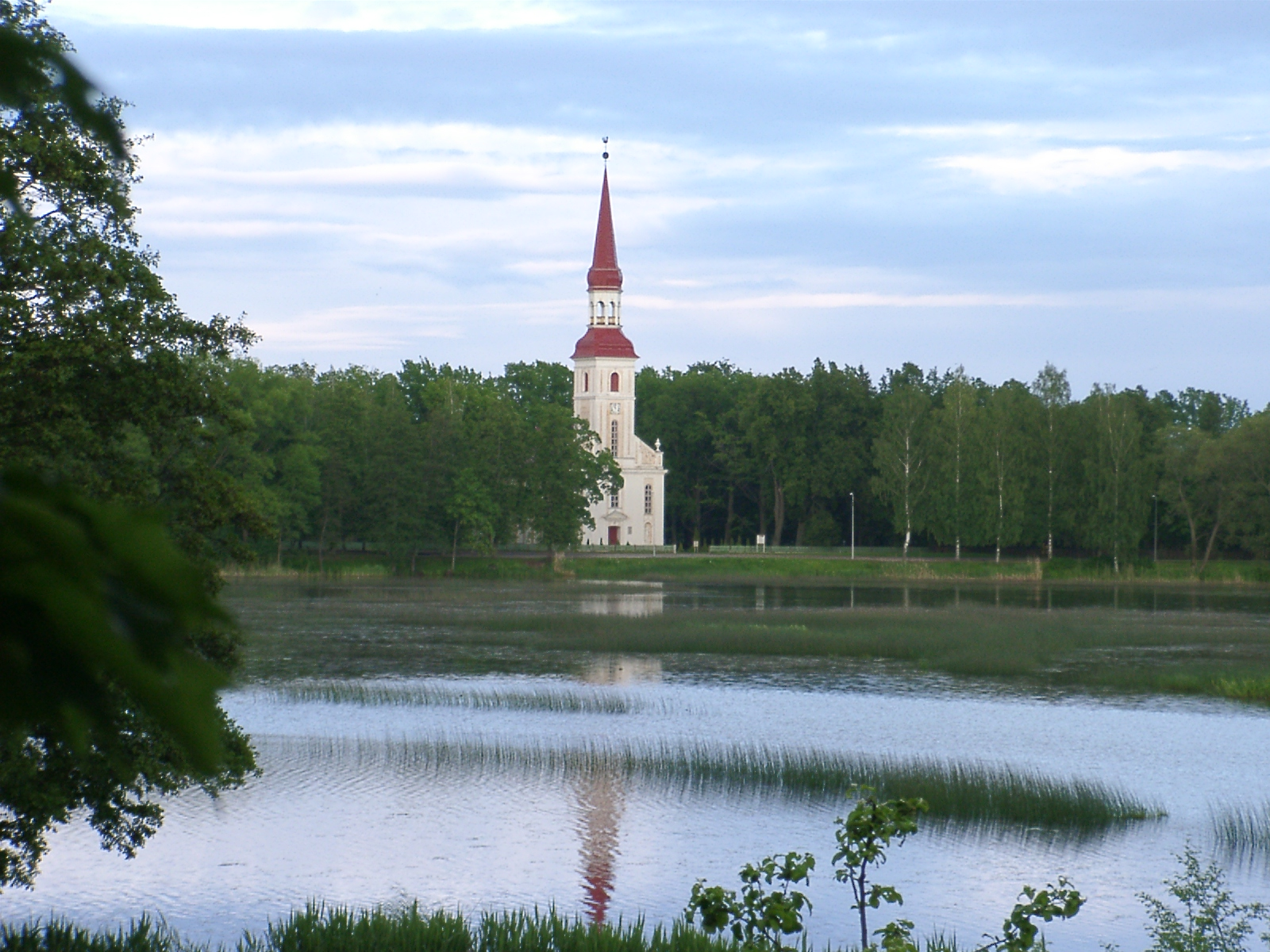 Räpina Lutheran Church on the Border of Räpina paisjärv, Estonia